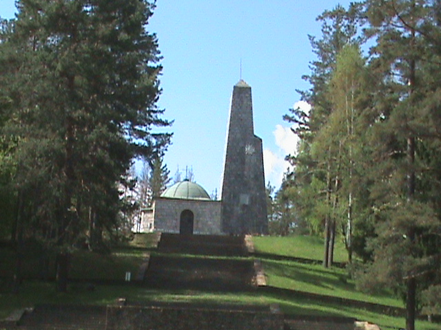 Паметникът на 21-ви Средногорски полко край с. Полковник Серафимово. The First Balkan War-monument near the village Polkovnik Serafimovo, Bulgaria.JPG